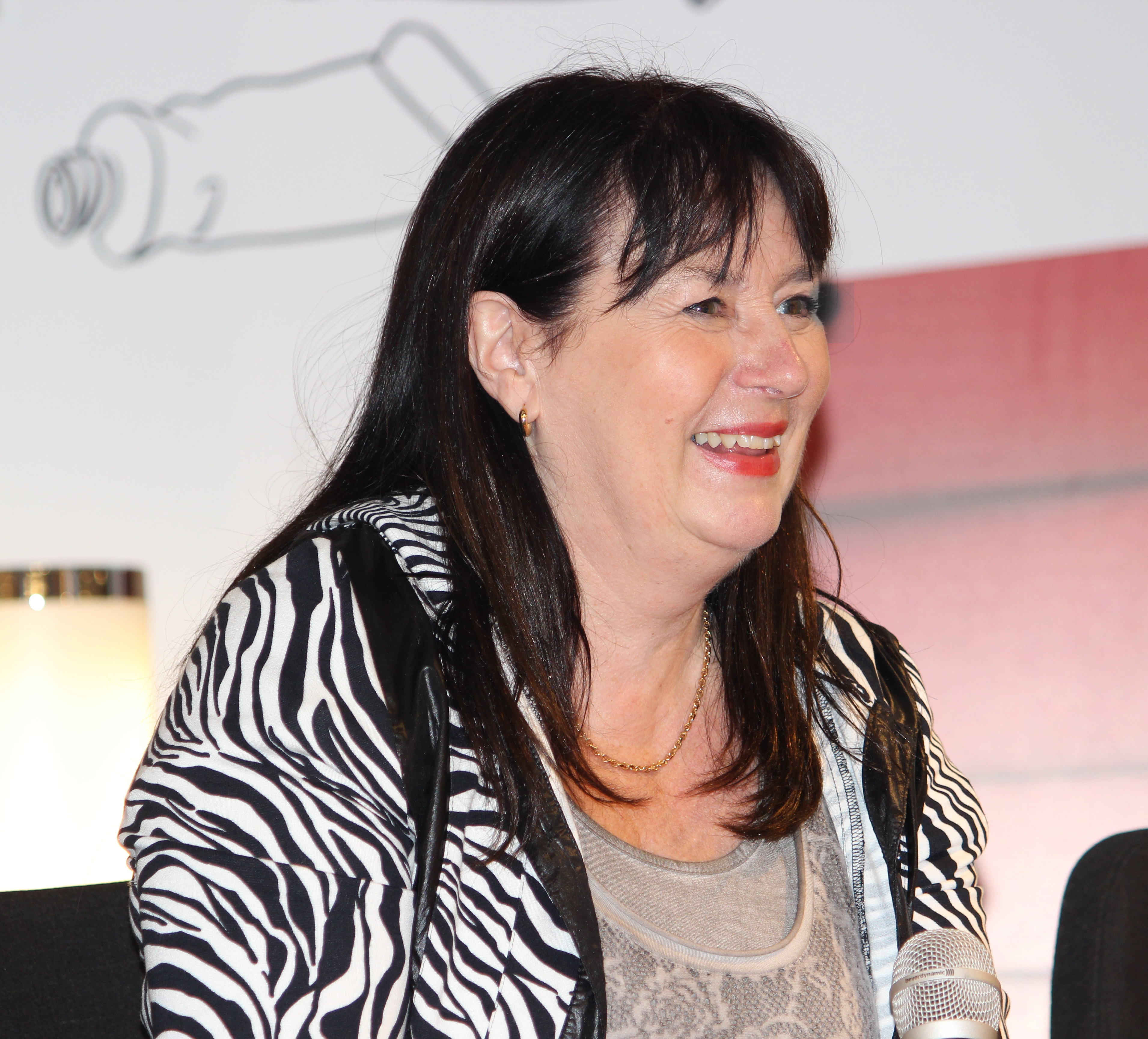 Swedish writer Anna Jansson on the Night of The Arts in Helsinki 2014